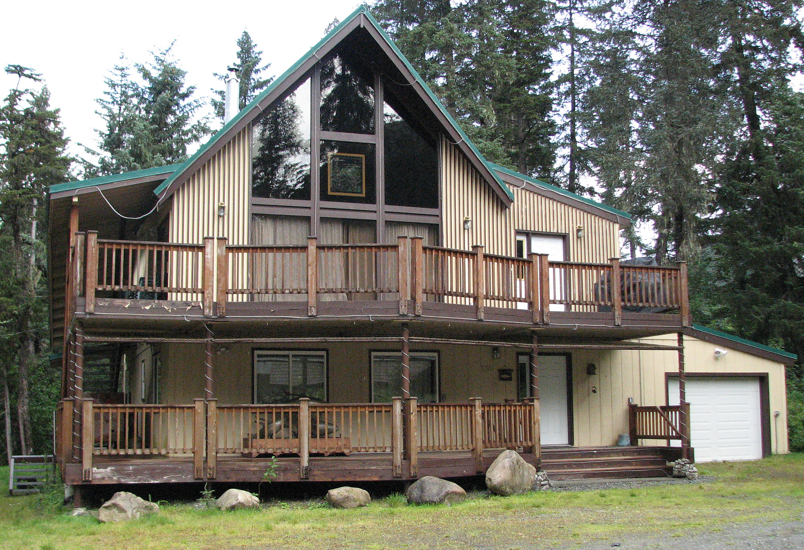 House owned by United States Senator Ted Stevens in Girdwood, Alaska. Address: 138 Northland.